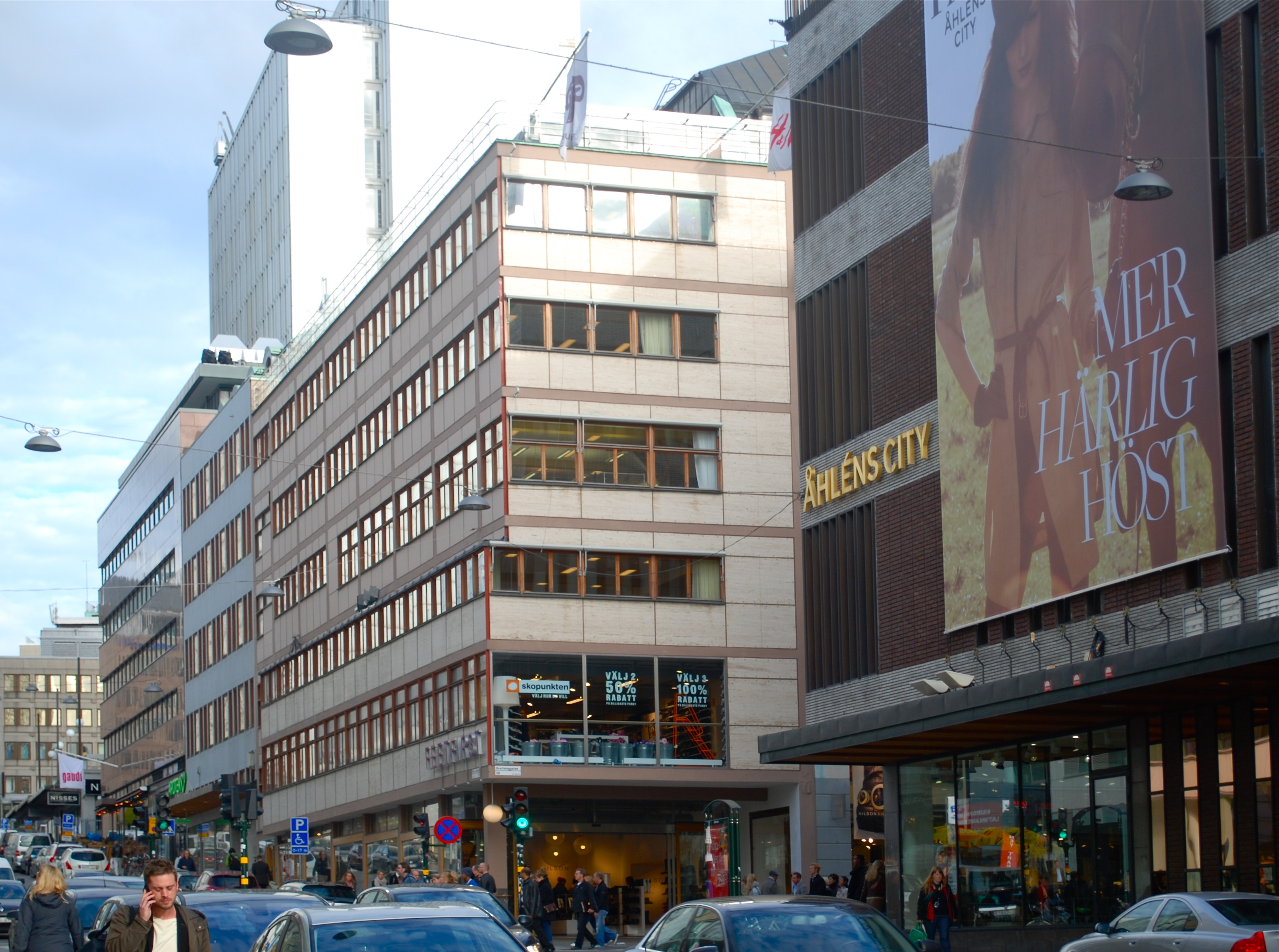 Bredenbergs varuhus.